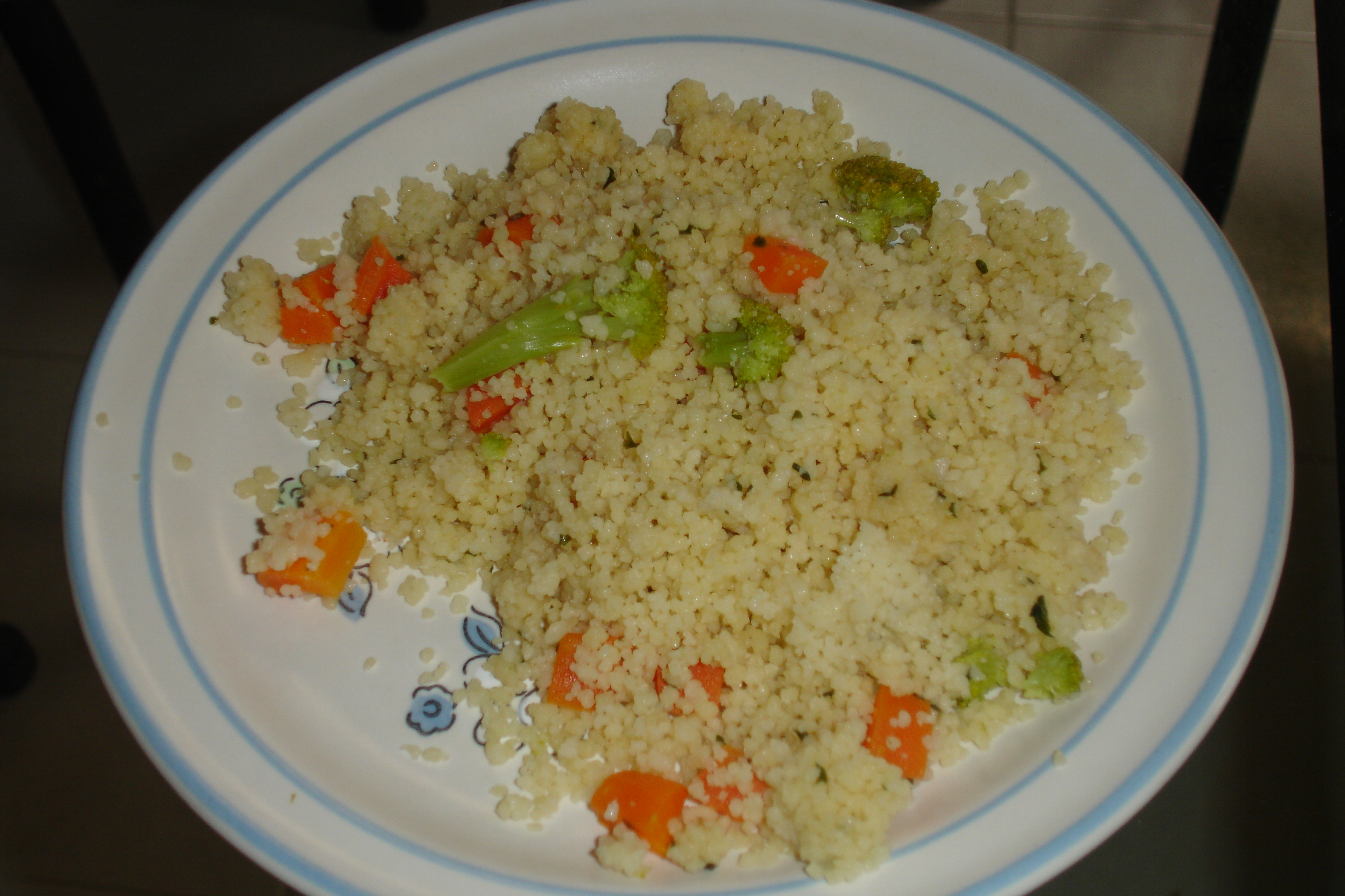 Couscous with vegetables